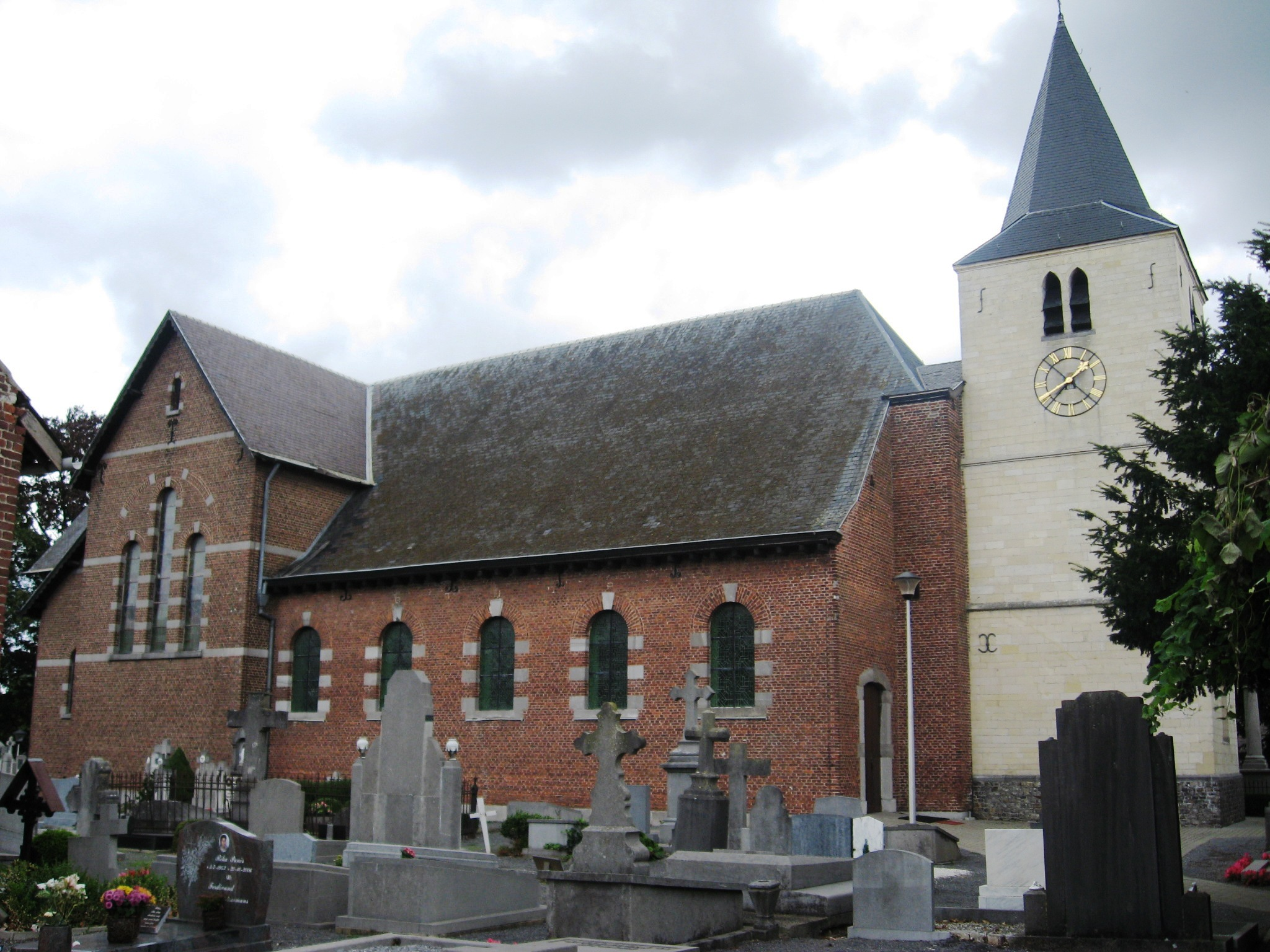 Church of Saint Martin in Gors-Opleeuw, Borgloon, Limburg, Belgium